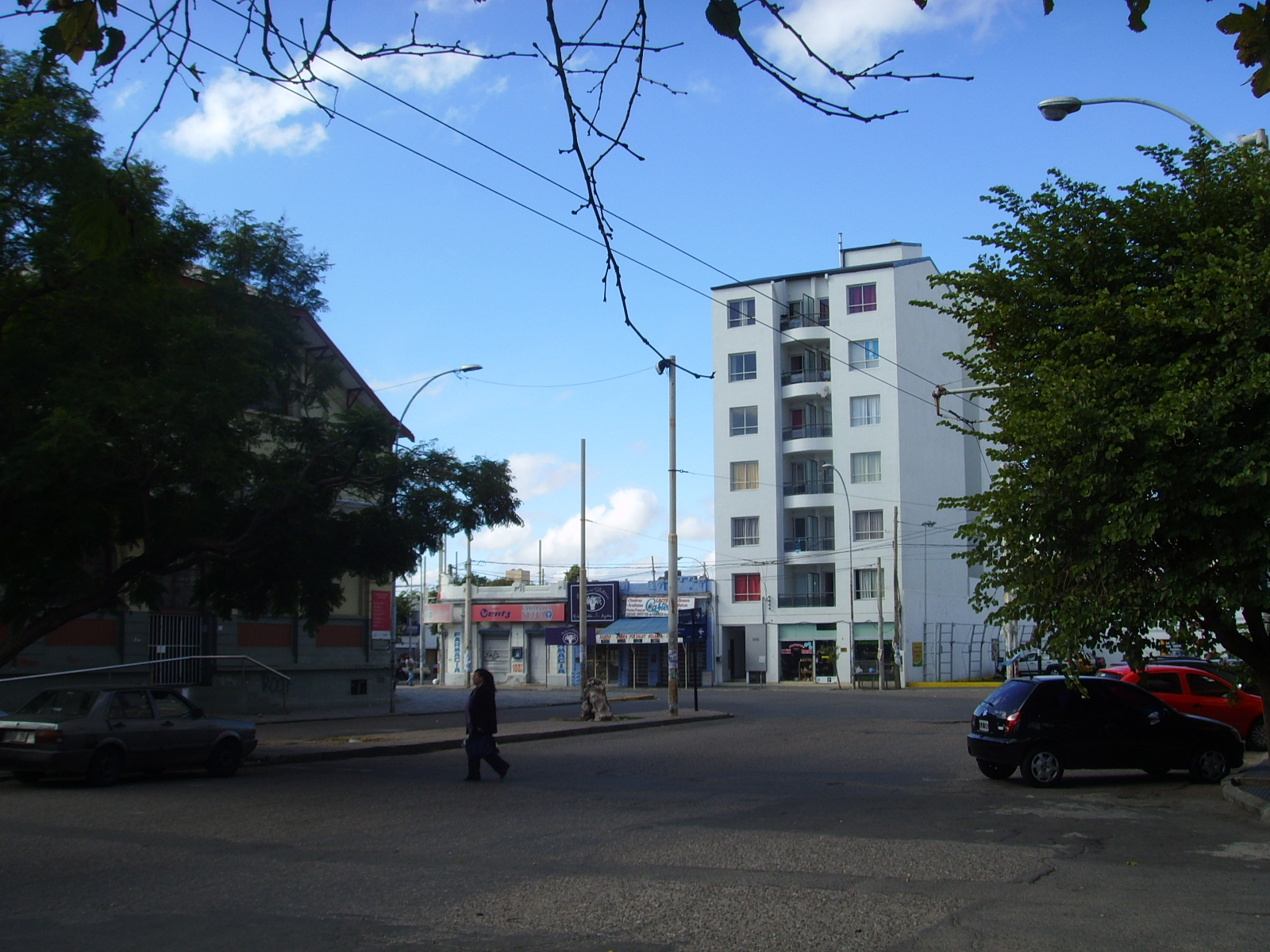 Plaza Mariano Moreno, San Vicente, Córdoba, Argentina